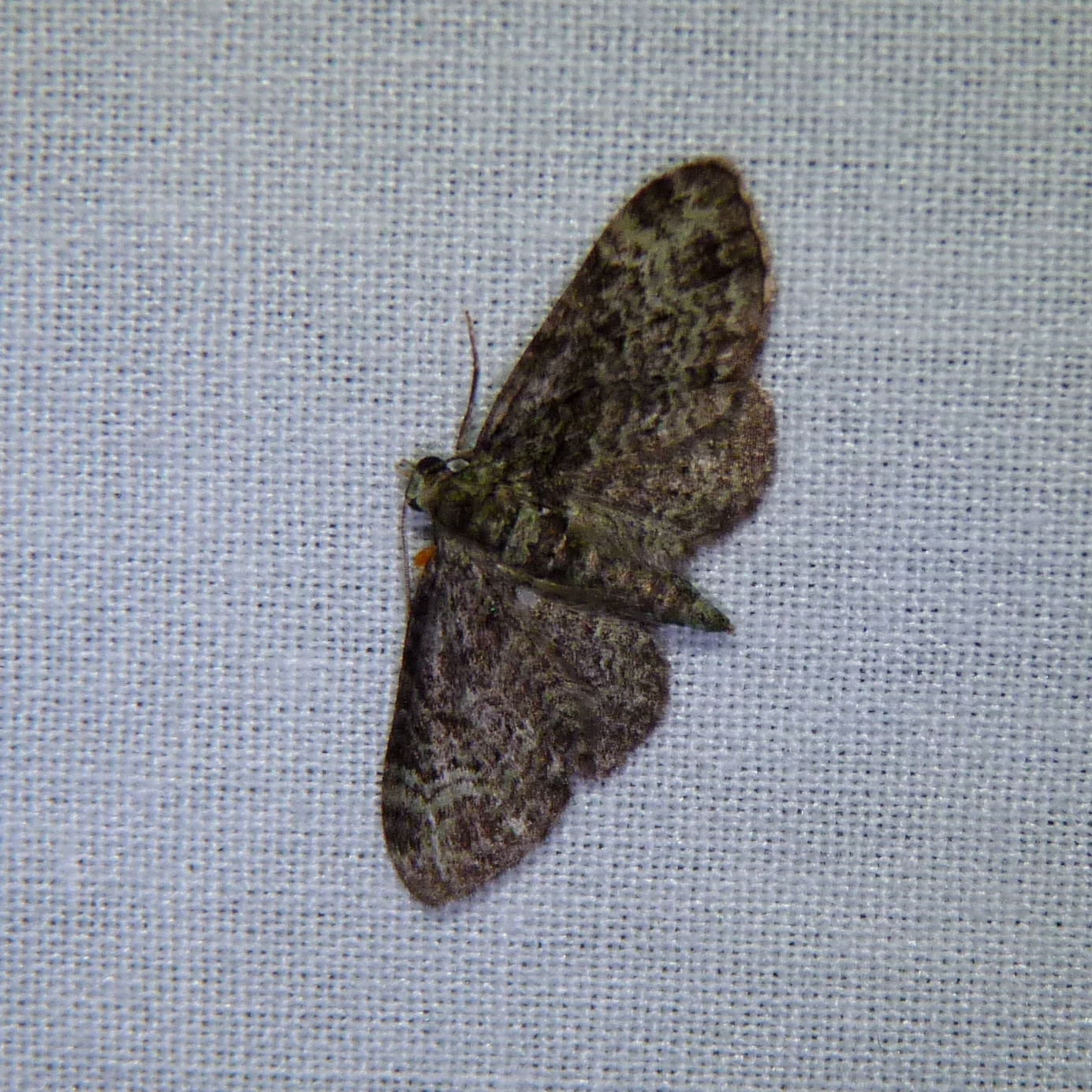 Grey Pug (Eupithecia subfuscata) – Hodges#7487 BugGuide / MPG